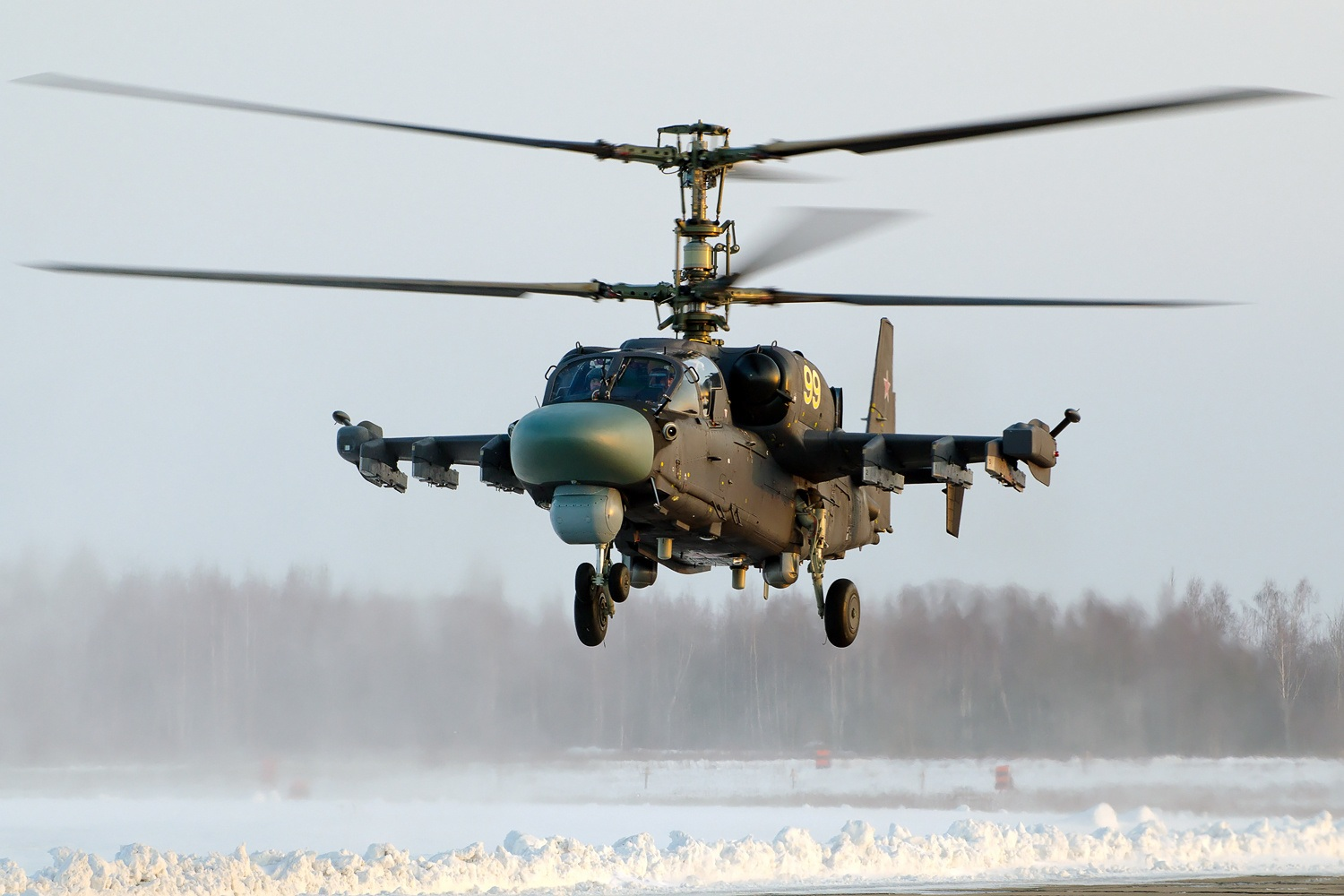 Kamov Ka-52 99 YELLOW